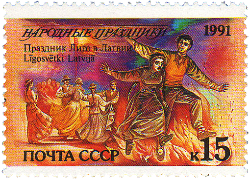 USSR postage stamp issued in honor of a Latvian traditional festival of "Jāņi" or "Līgo".